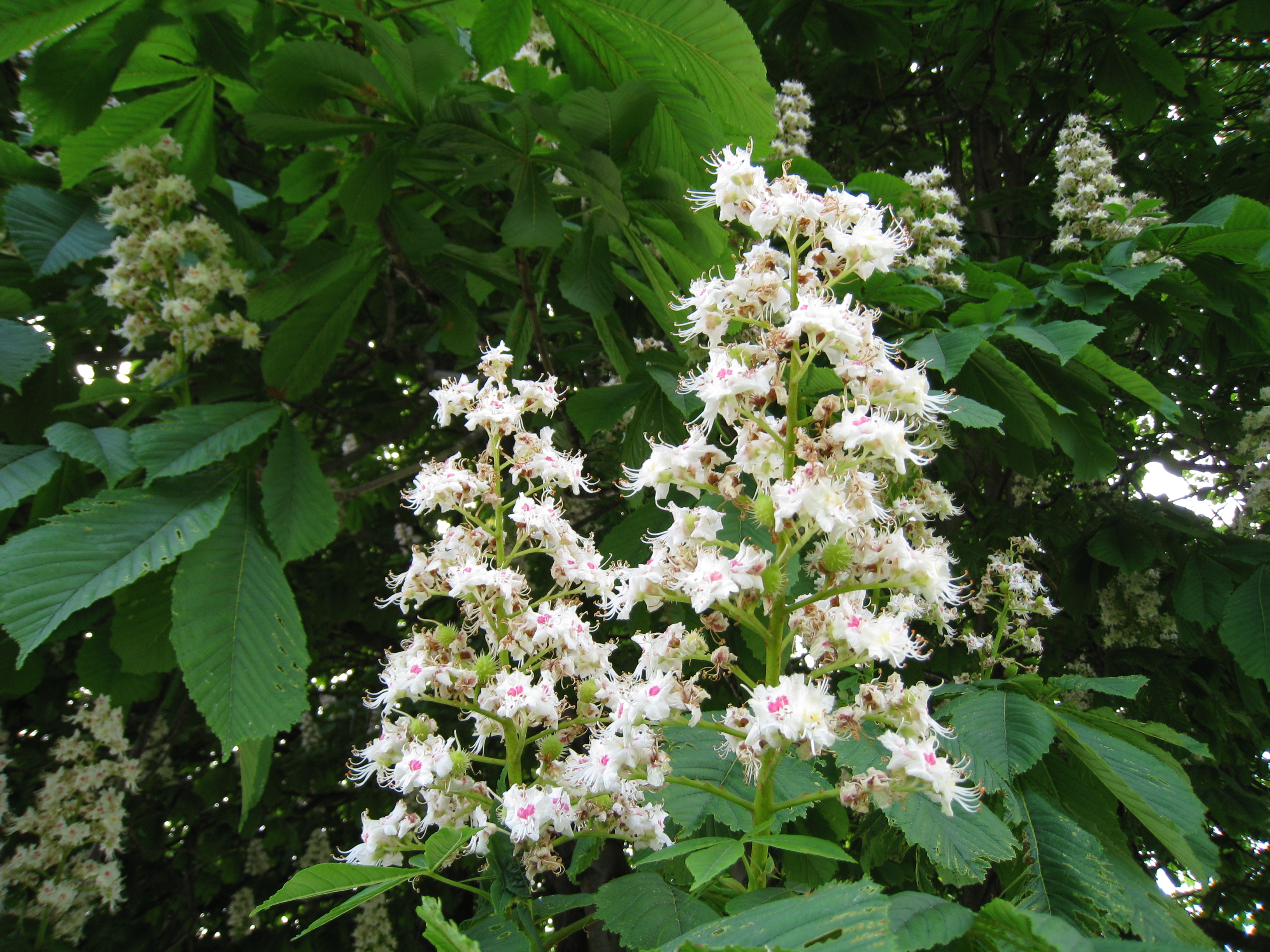 Aesculus hippocastanum - Common Horse-chestnut on the grassy area at English Bay